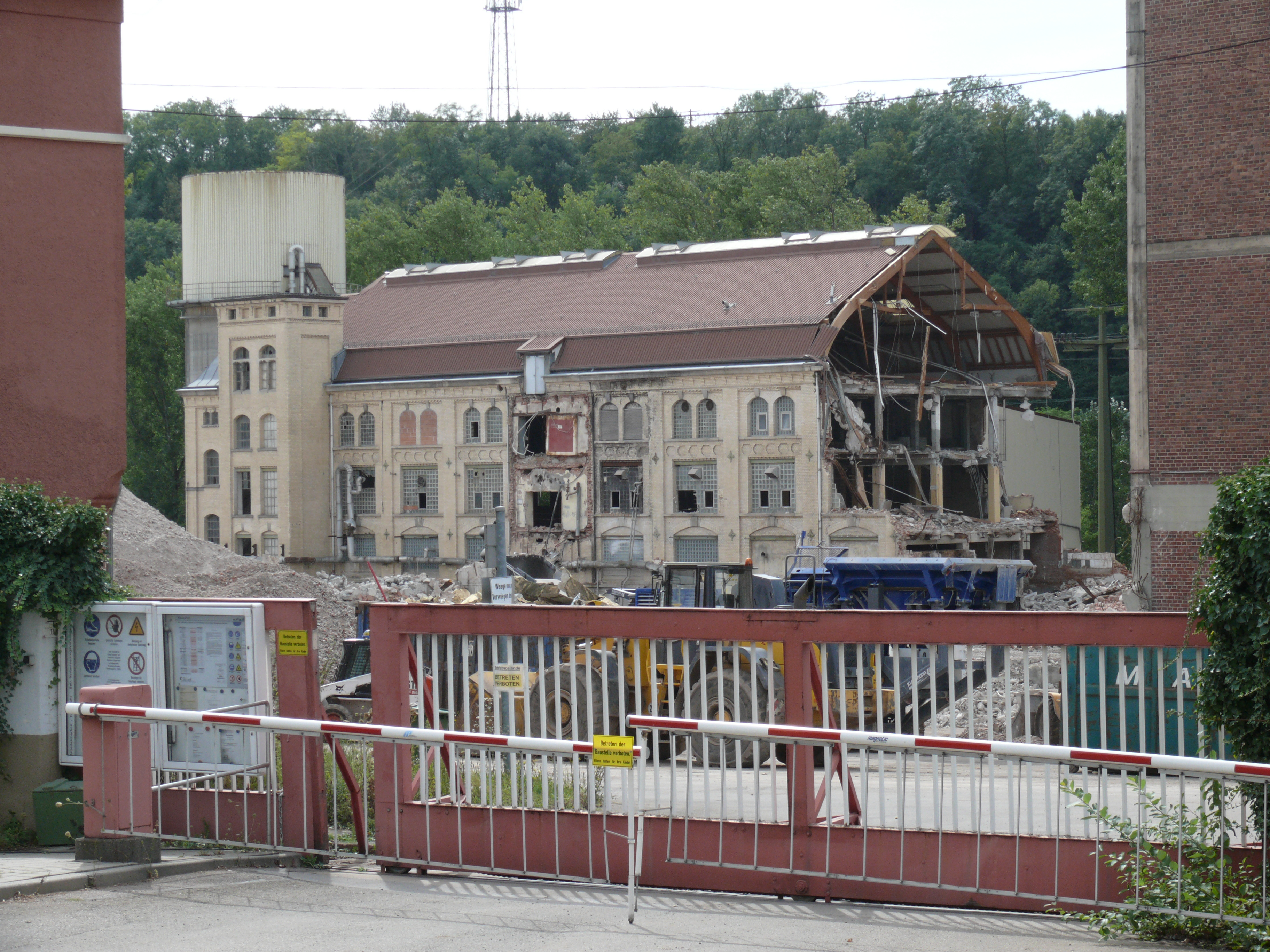 Demolition of the former paper mill in Gemmrigheim (Baden-Württemberg, Germany) in summer 2013: view from the street over the driveway to the factory area. — I have photographed the demolition for documentary purposes.